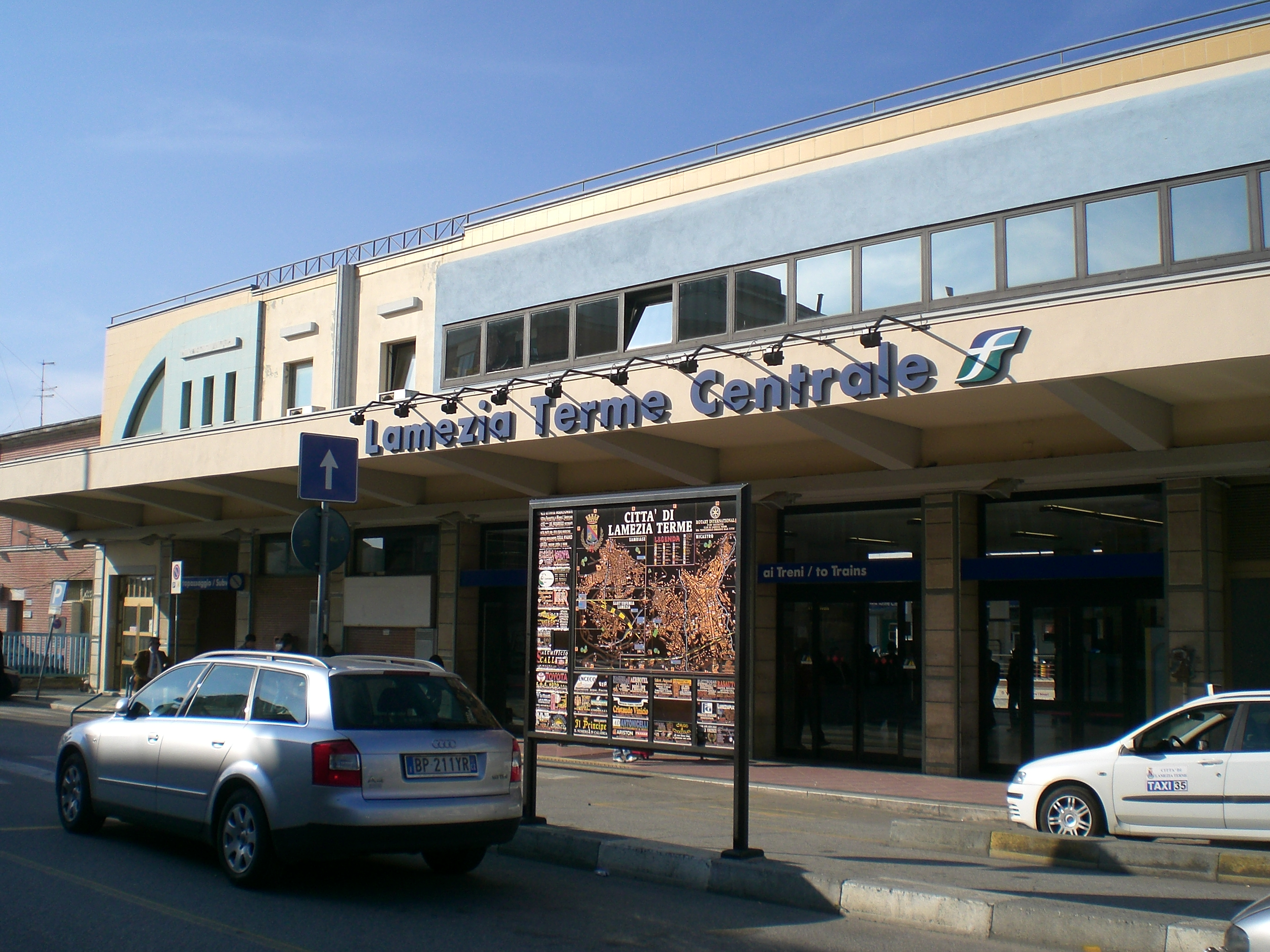 The central railway station of Lamezia Terme, Catanzaro (Italy)